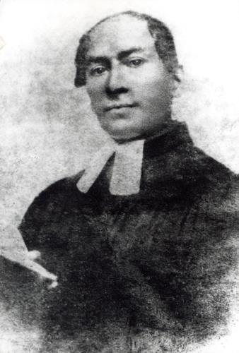 The daguerreotype of Sándor Terplán (Aleksander Terplan) Slovene Luteran pastor, translator, writer in Hungary. Born 1816 Ivanovci; death 1858 Puconci. His famous work is the translations of Psalms (Knige 'zoltárszke) in Prekmurian (prekmurščina).